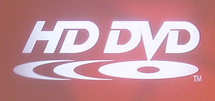 HD-DVD logo. Taken on the Toshiba booth on the consumer electronics fair IFA2005 in Berlin.